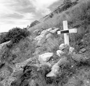 The memorial marker at the site where US Forest Service smokejumper Joseph B. Sylvia died 5 August 1949 at the Mann Gulch fire (Montana)